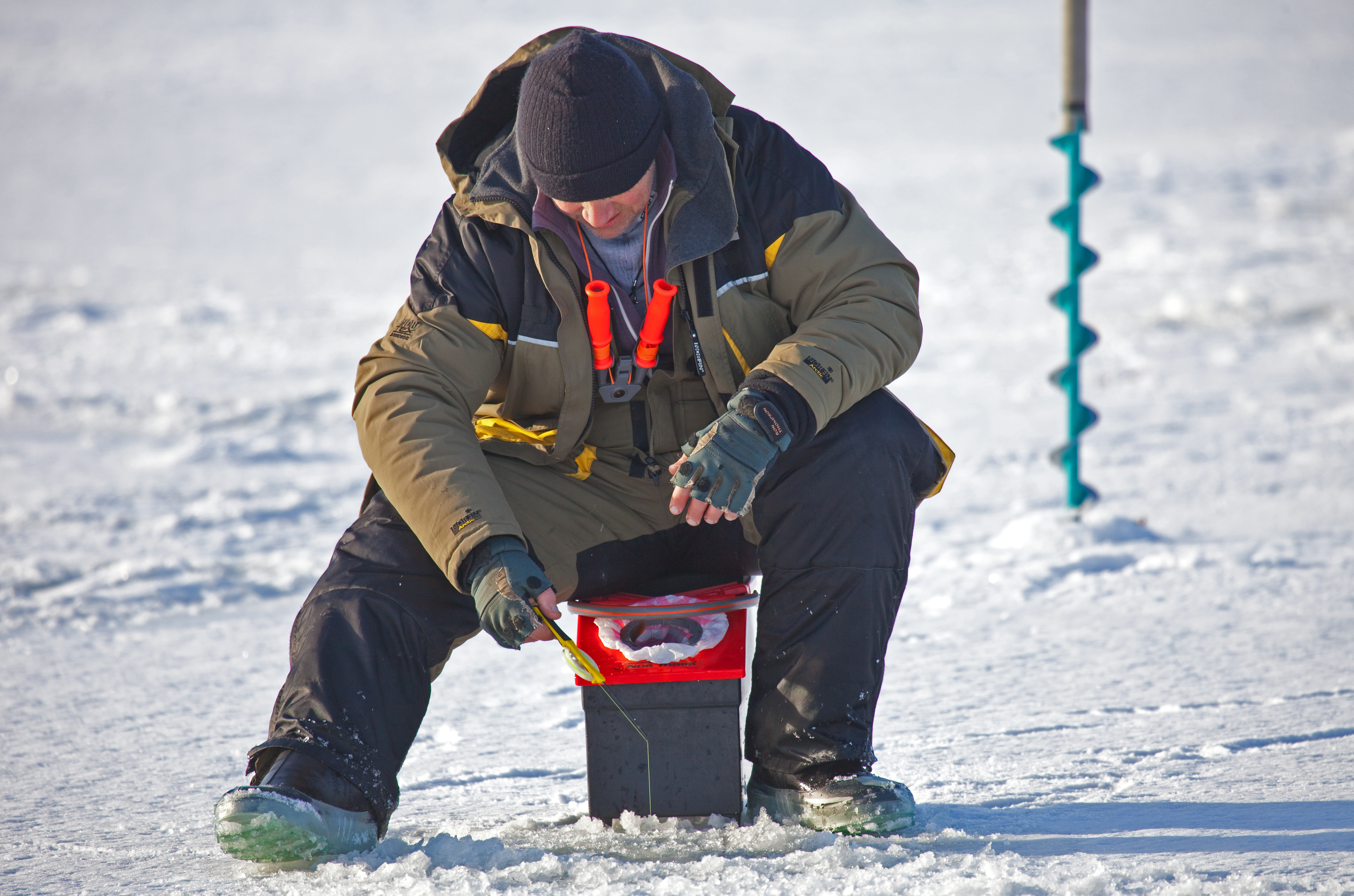 Ice fishing January 2011 in Broknas, Vaxholm, Stockholm, Sweden.